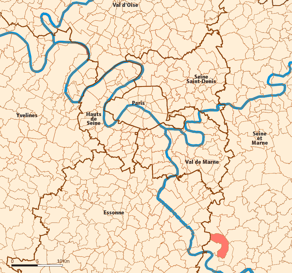 Created map myself.